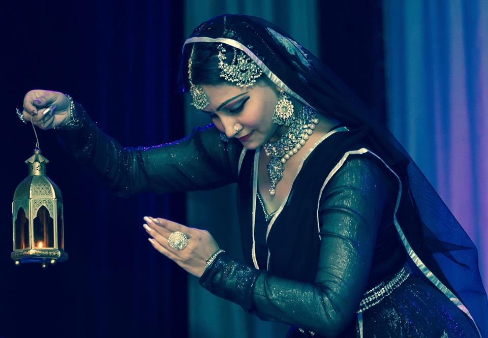 Namrrta performing on Sufi Poetries